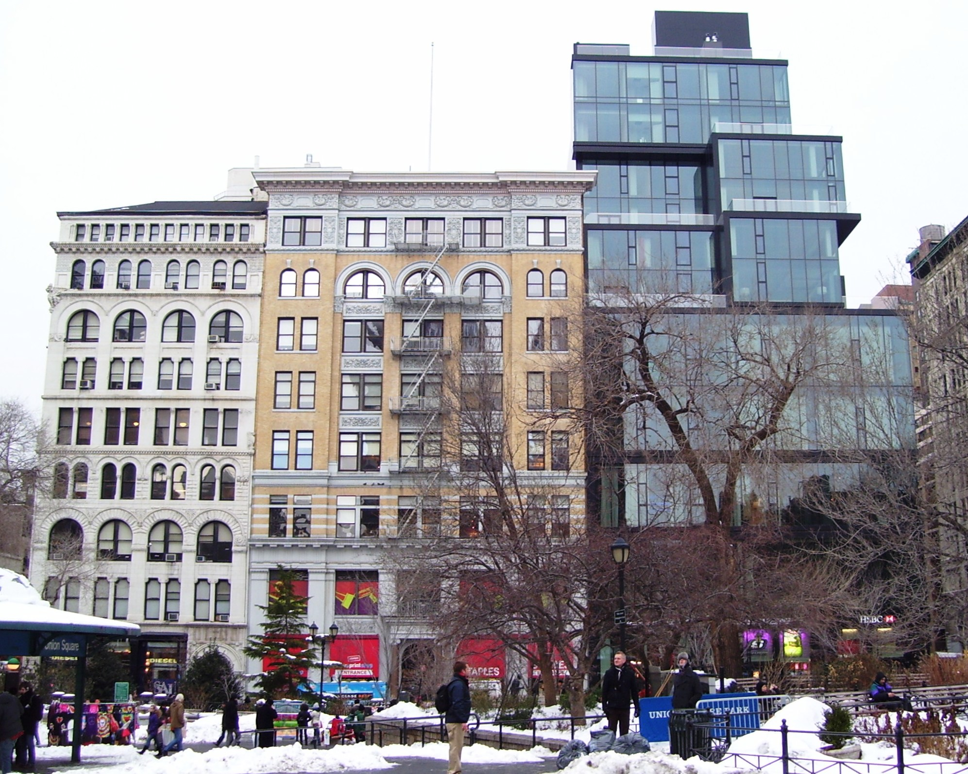 Three buildings on Union Square West, between 14th and 15th Streets, in Manhattan, New York City. On the left, 1 Union Square West, the Lincoln Building, is a Romanesque Revival granite building designed by R.H. Robertson and built in 1889-1890. In the middle, 5-9 Union Square West, the Springler Building, also Romanesque Revival, was built in 1890. On the right, 15 Union Square West, was originally built for Tiffany & Co in 1870, but the original cast-iron facade was later covered with white bricks. In 2007, when it was converted into 36 condominiums, the bricks were removed, and a steel-and-glass exterior, designed by Eran Chen was constructed over the cast-iron facade, with additional stories added. The new interiors were by Vincente Wolf Associates. {Sources: AIA Guide to NYC (4th ed.) and [1])